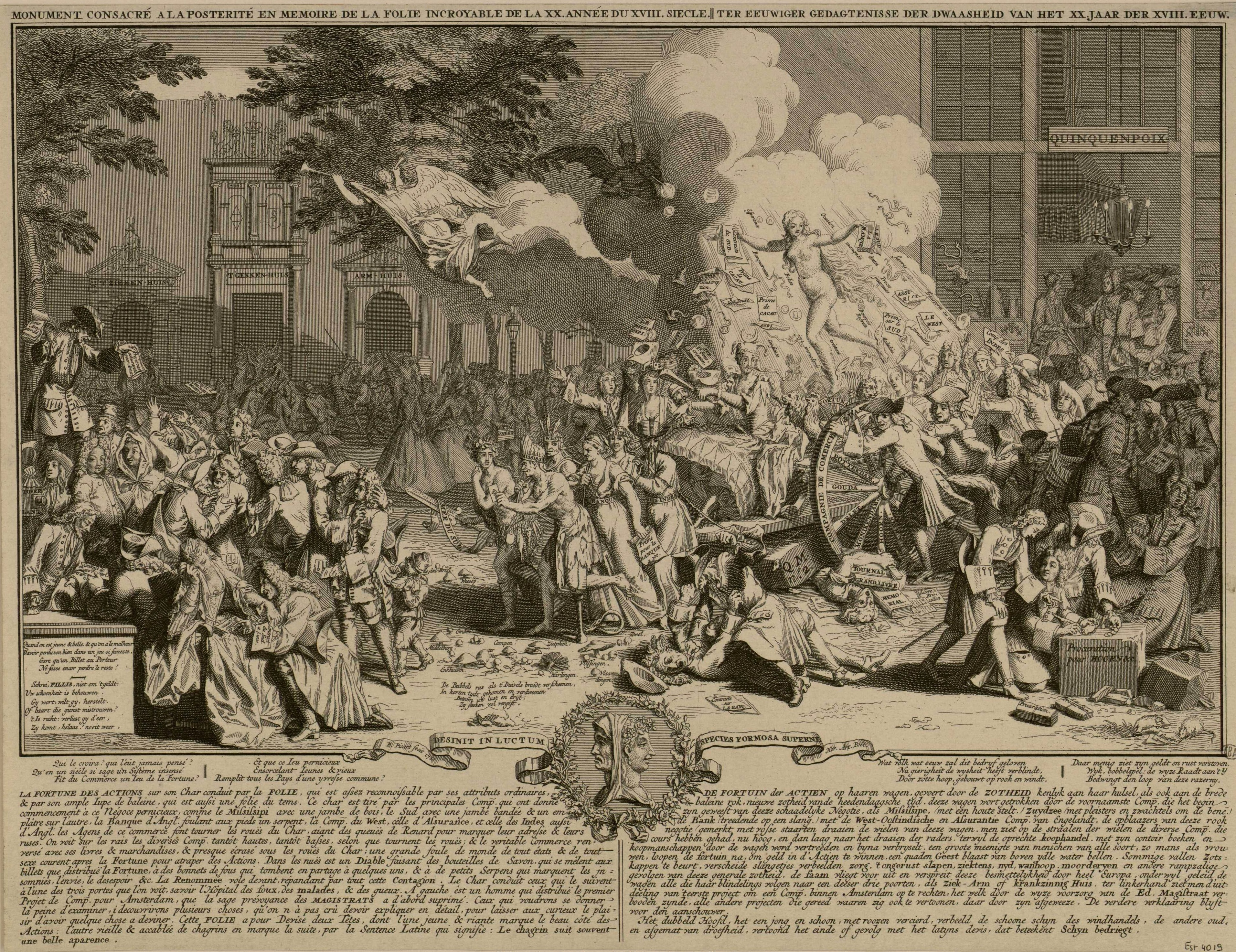 Allegorical engraving and humorous, on the bankruptcy of John Law and representing a parade, street Quincampoix in 1720. Text in French and Dutch.